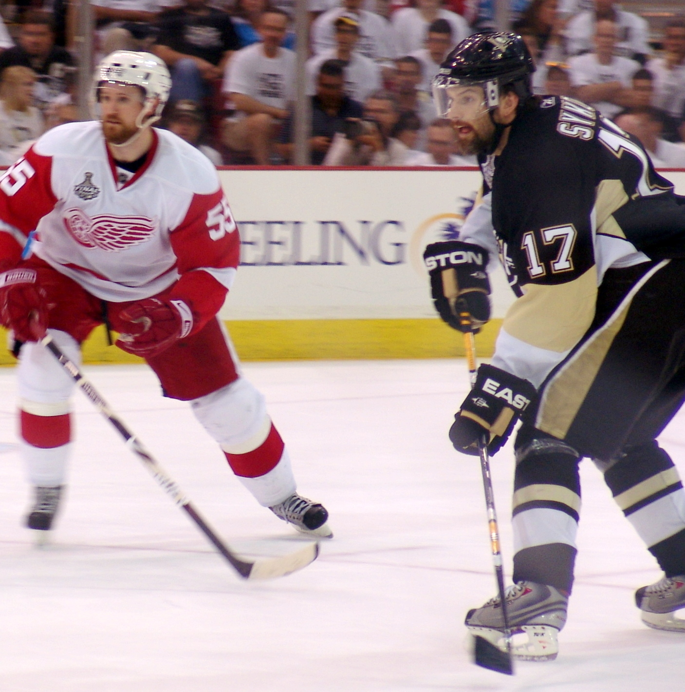 Pittsburgh Penguins forward Petr Sýkora during the 2009 Stanley Cup Finals Game 6 at Mellon Arena in Pittsburgh, PA. June 9, 2009.